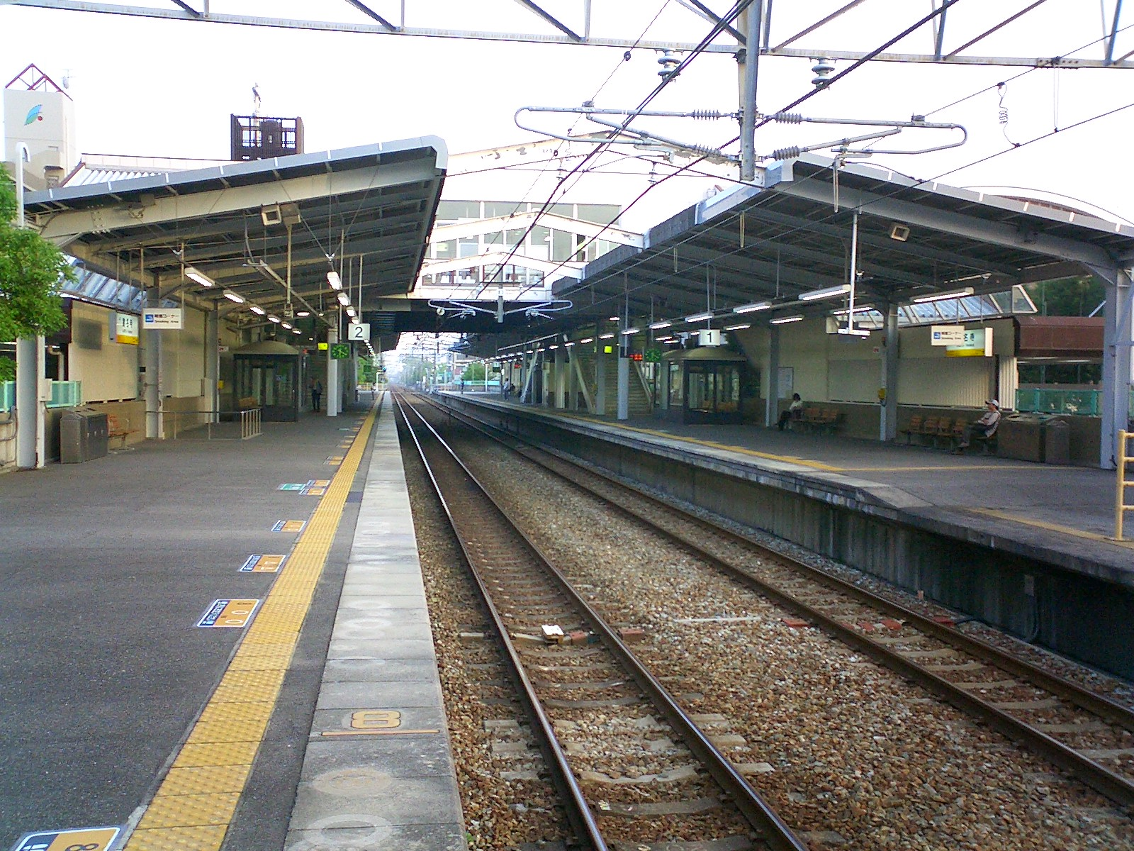 West Japan Railway Fukuchiyama Line（JR Takarazuka Line） Inadera Station Platform